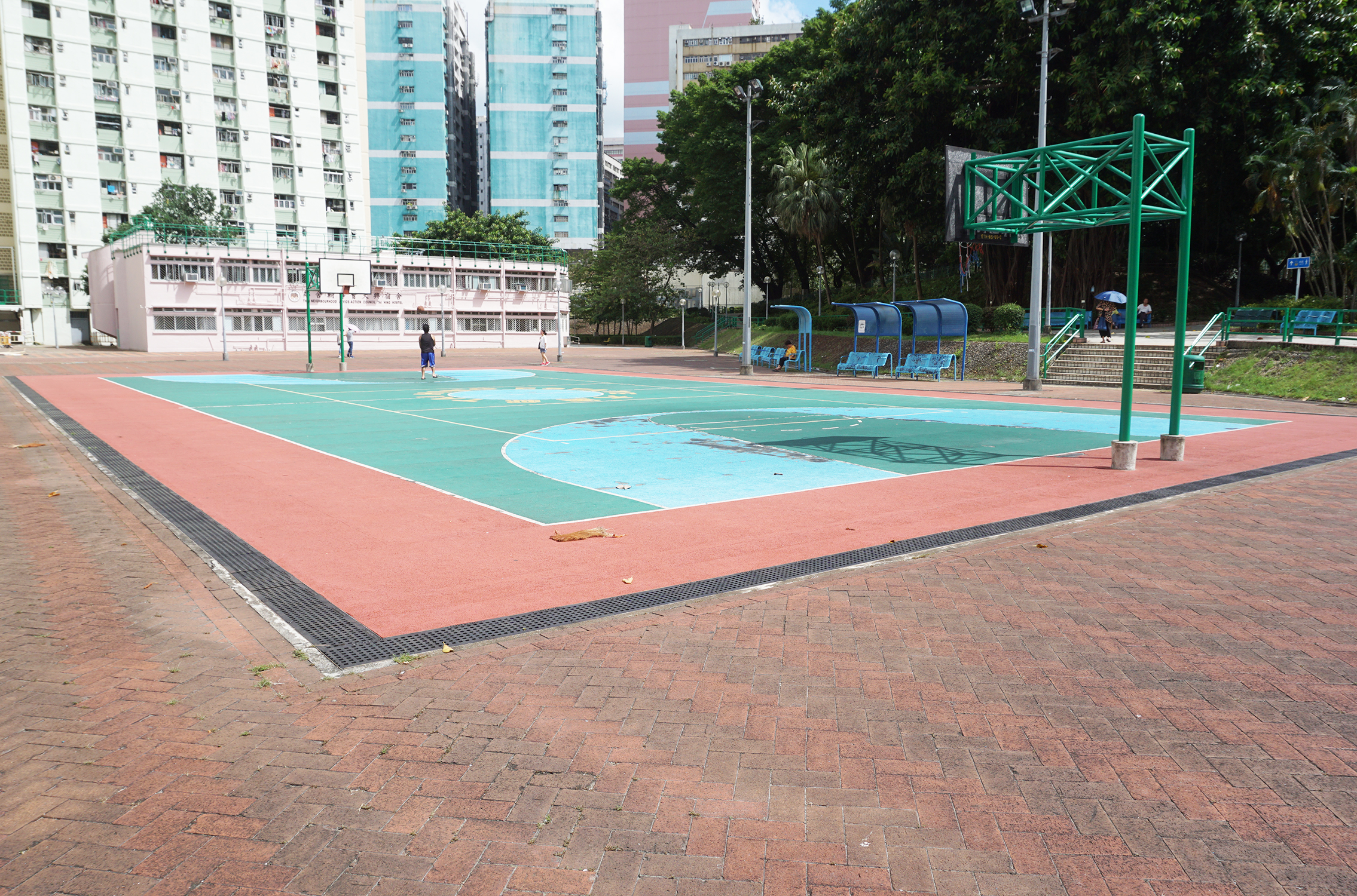 Tai Hing Estate in Tuen Mun, Hong Kong.